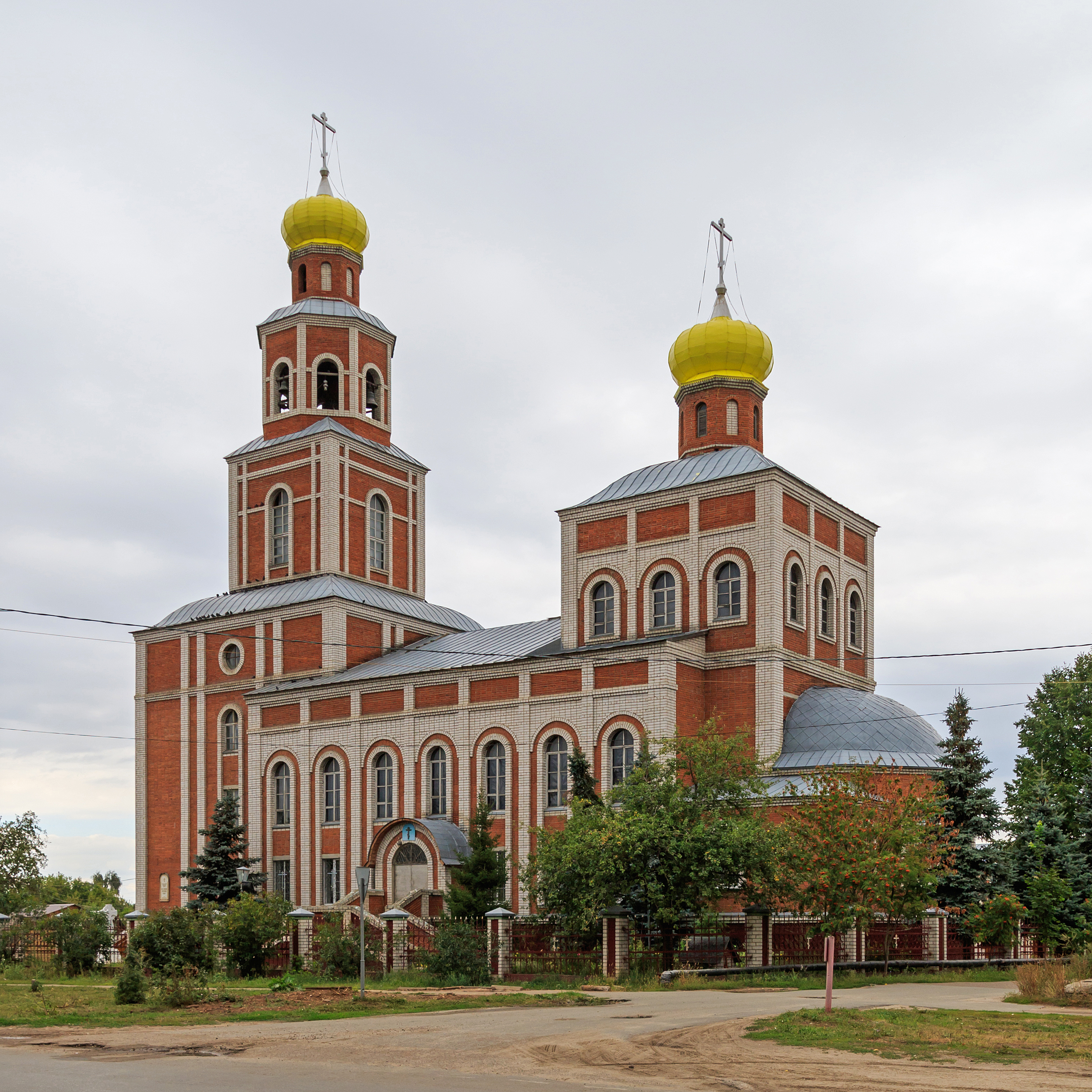 Saint Nicholas Church in Volzhsk, Mari El, Russia